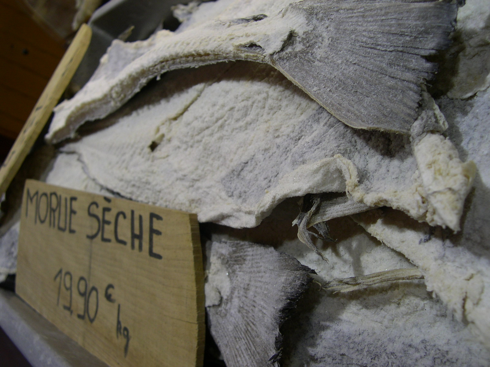 Salt cod (French: morue sèche) for sale at a Nice market.